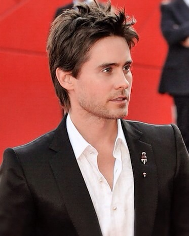 Jared Leto at the 66th Venice International Film Festival.